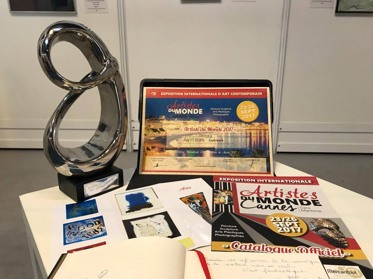 Talent award at Cannes contemporary art exhibition 2017 year